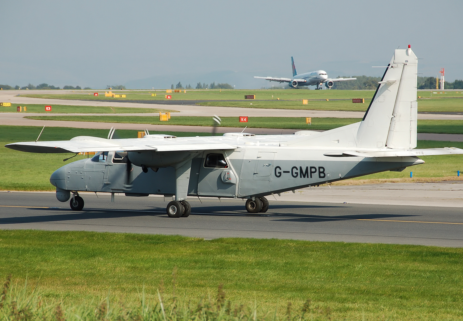 Britten-Norman BN-2T-4S Defender 4000 (G-GMPB, an Islander variant) of the Manchester Police taxis past the Aviation Viewing Park, after landing at Manchester Airport, England. A First Choice aircraft is landing in the distance.